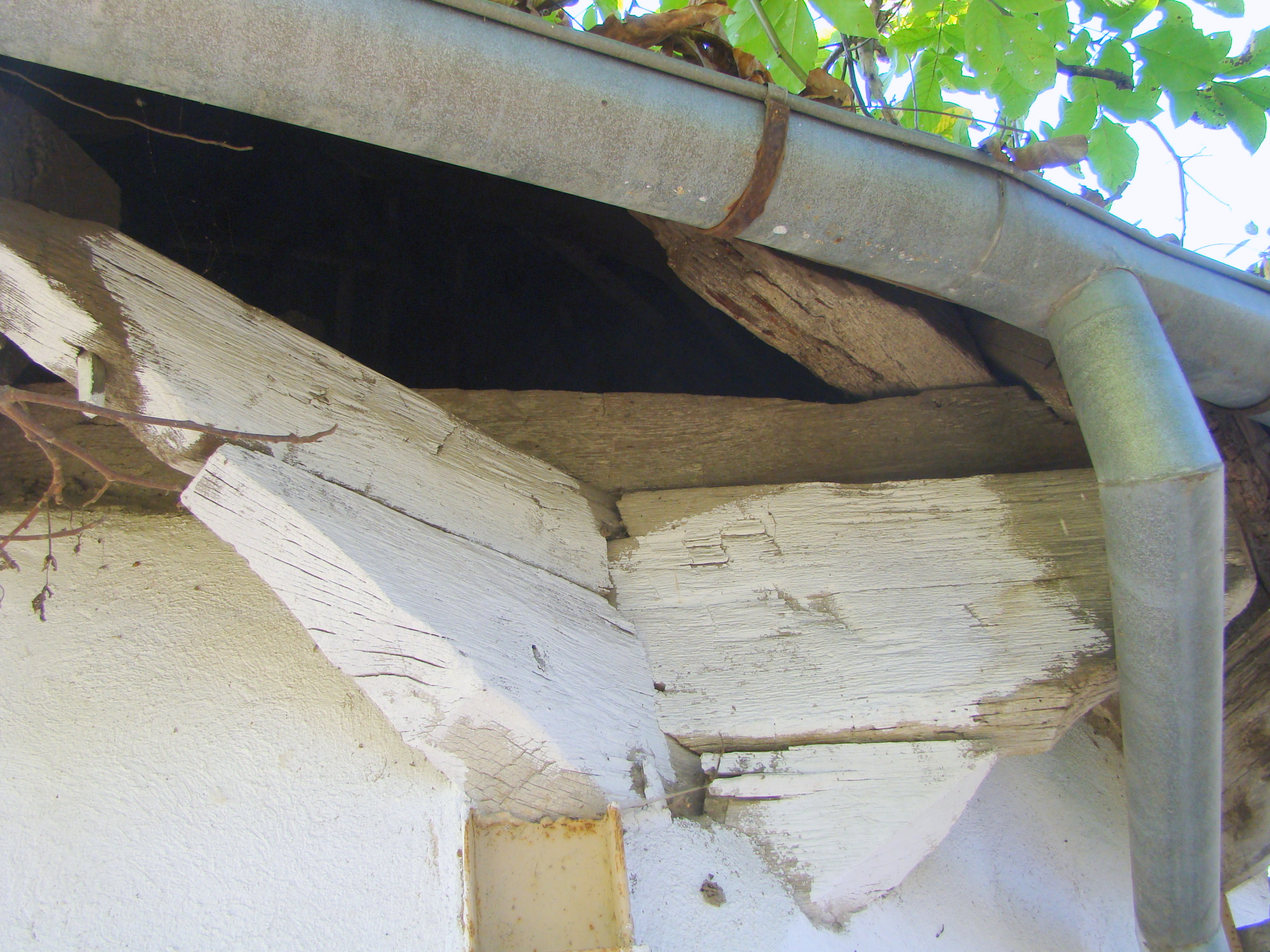 Saint George's wooden church in Valea Mânăstirii, Gorj county, Romania